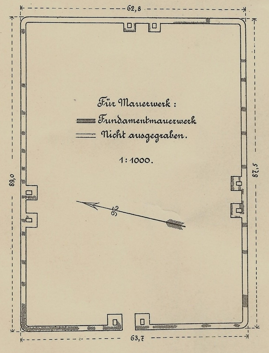 Ground-plan of the Roman castrum Trennfurt (ORL 37) at the river Main, part of the Upper Germanic-Rhaetian Limes